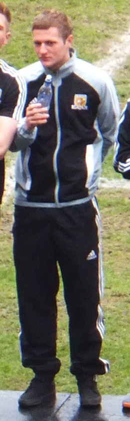 Liam Cooper. Image cropped from original at flickr.